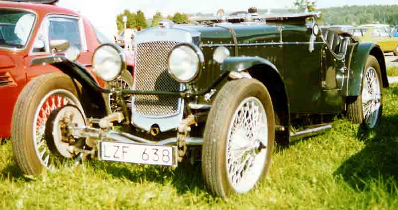 Frazer Nash TT Replica 2-Seater Sports 1935